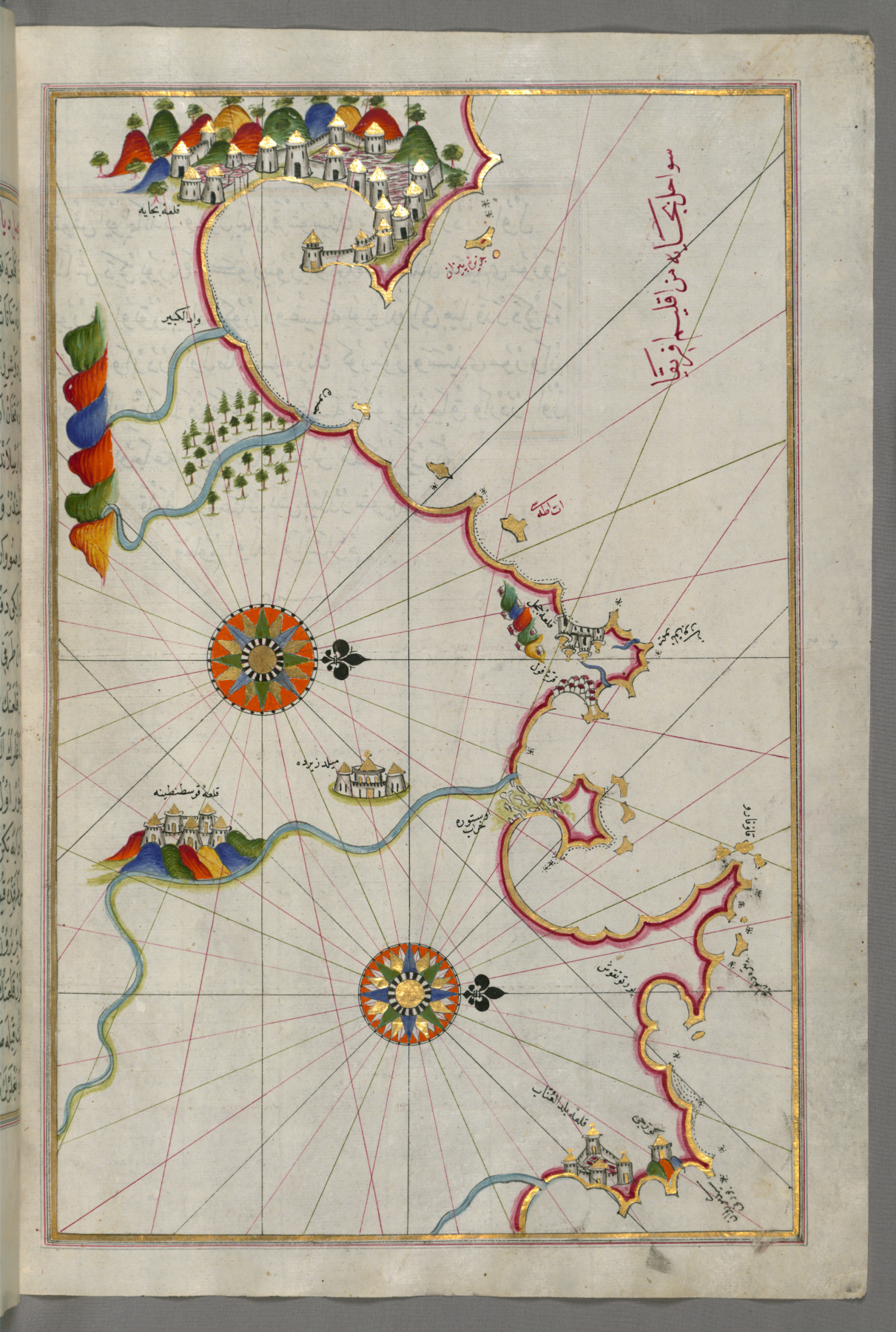 This folio from Walters manuscript W.658 contains a map of the Algerian coast from the port of Bejaia (Bajayah) as far as Annaba (Balad al-'Unnab) with the city of Constantine (Qustantiniyah).